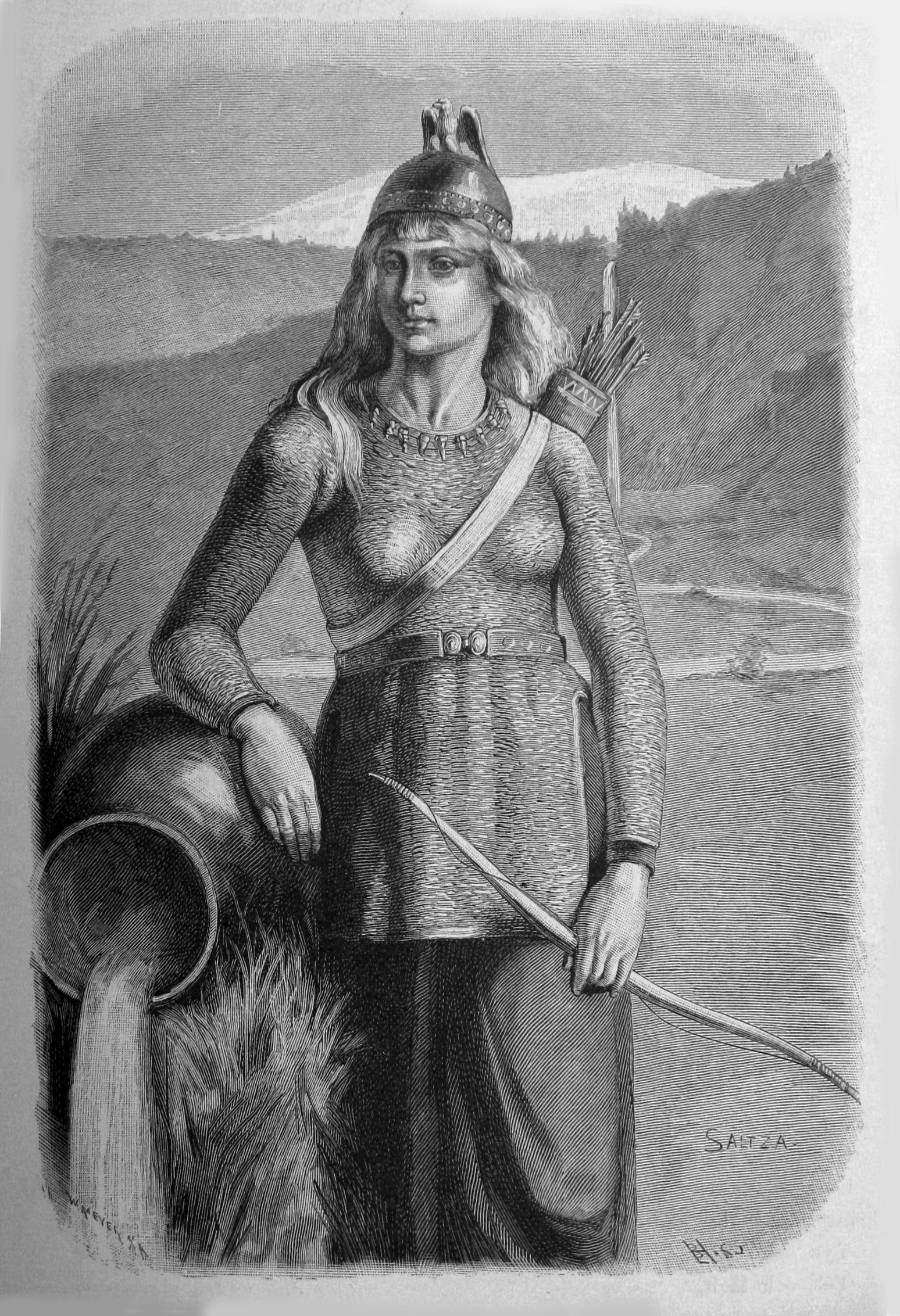 The engraving shows a woman with a helmet, a bow and a quiver. It is Skaði from Norse mythology. In the bottom left corner is written "W. Meyer X.A." meaning that the engraving was created at W. Meyers xylografiska anstalt, an engraving company owned by Wilhelm Meyer (1844-1944). In the lower right corner is written "LBH SC", meaning that the engraver was Ludvig Bernhard Hansen (1856 - 1933). Somewhat above this signature is written SALTZA, meaning that the original artist was Carl Fredrik von Saltza (1858 - 1905) The image list on page 468 in the book describes this image as Skade.